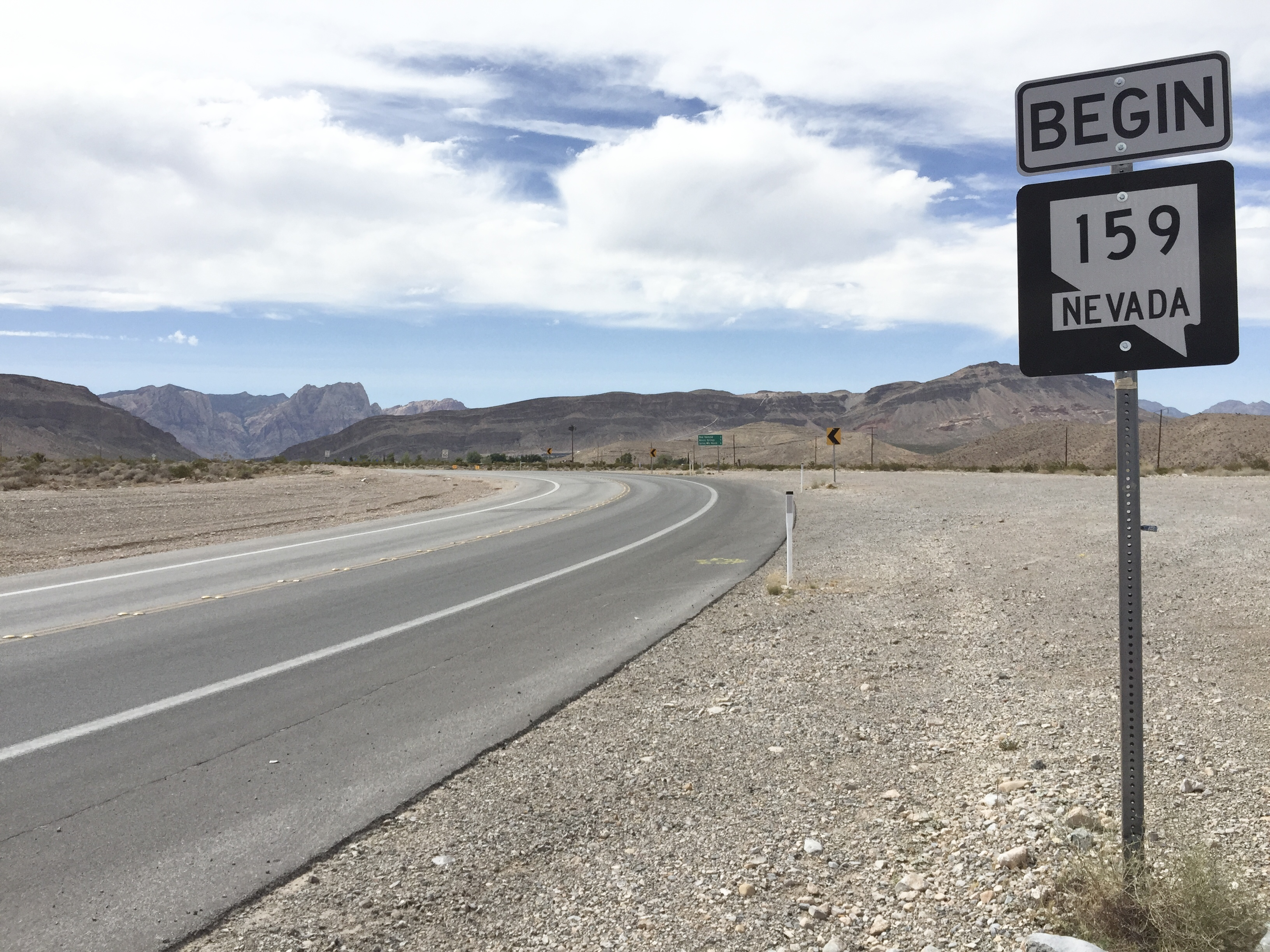 View "east" (actually west-northwest) from the "west" end of Nevada State Route 159 (Blue Diamond Road) near Las Vegas, Nevada